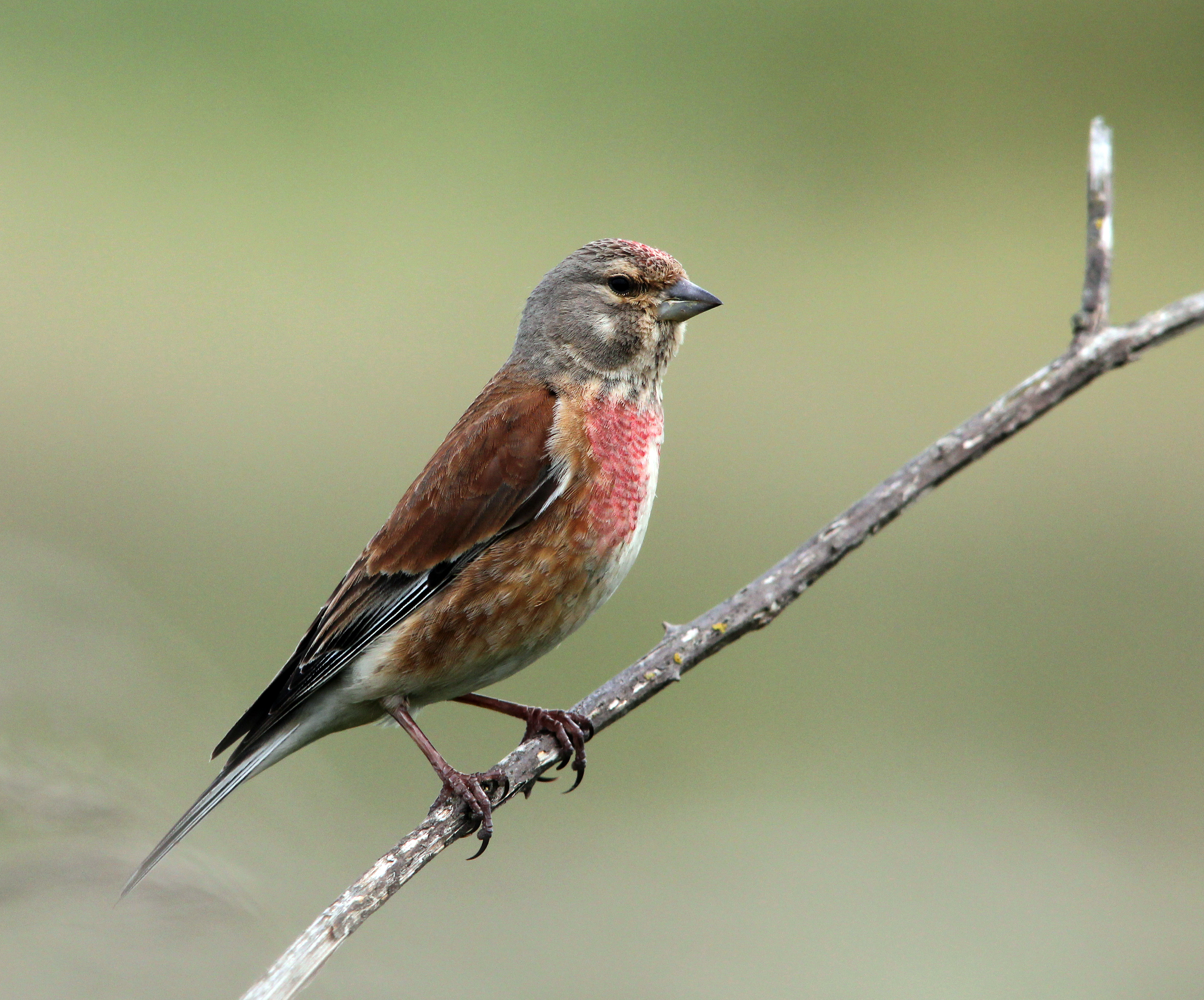 A male Common Linnet Linaria cannabina in Lincolnshire, England.